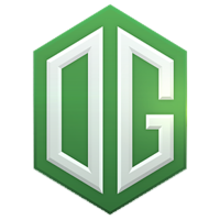 Team OG